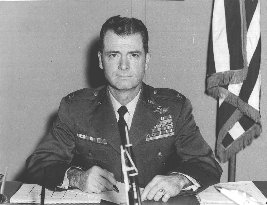 Col Doss seated at desk